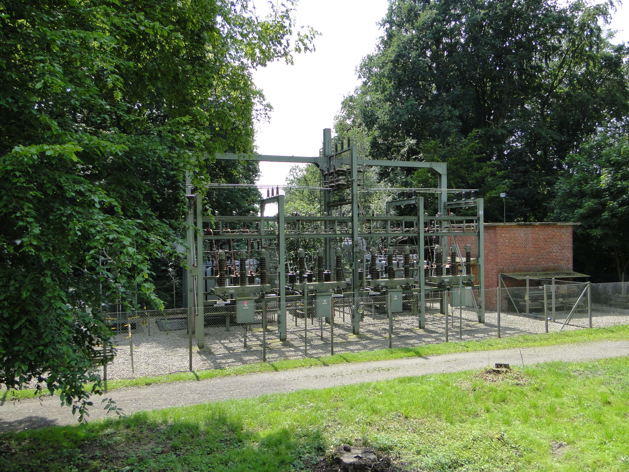 Schaalseekanal and hydoelectric power plant Farchau in Farchauer Mühle, disctrict Herzogtum Lauenburg, Schleswig-Holstein, Germany